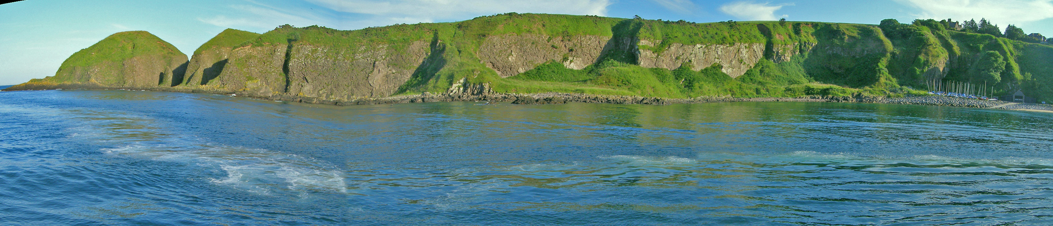 Southern part of Stonehaven Harbour, Aberdeenshire, Scotland (panorama)